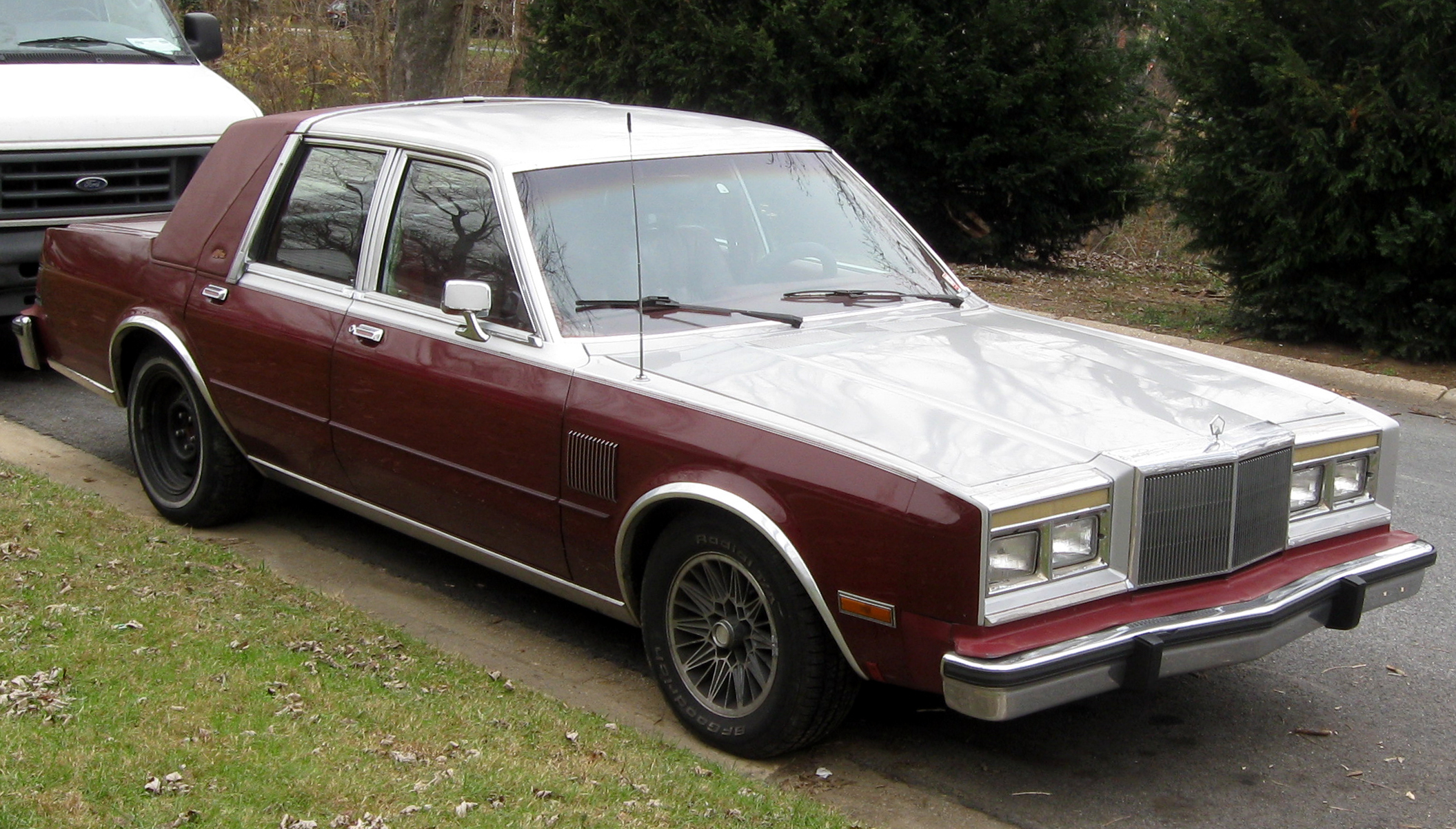 Chrysler Fifth Avenue photographed in Rockville, Maryland, USA.